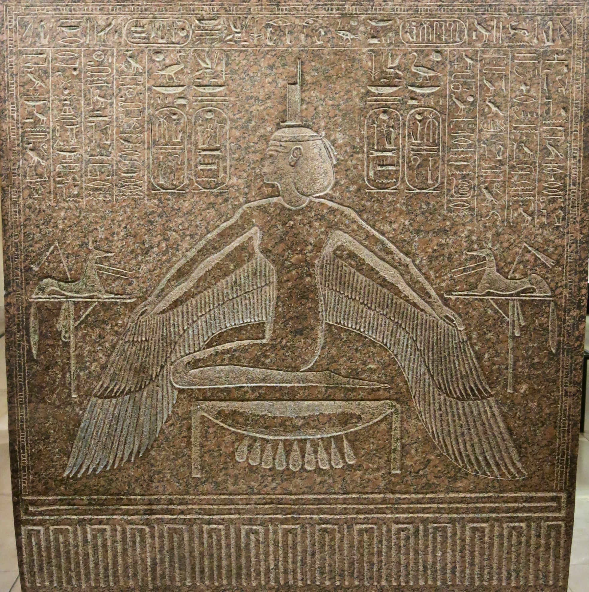 This file was derived from: Sarcophage de Ramsès III (Louvre, D 1) - Largeur coté sud.jpg Relief of Isis, kneeling on a stool in the shape of the hieroglyph for "gold" and flanked by standards of Anubis, at the foot of the sarcophagus of Ramses III. This version of the image has been cropped and sharpened compared with the original to make the relief more visible in thumbnail.